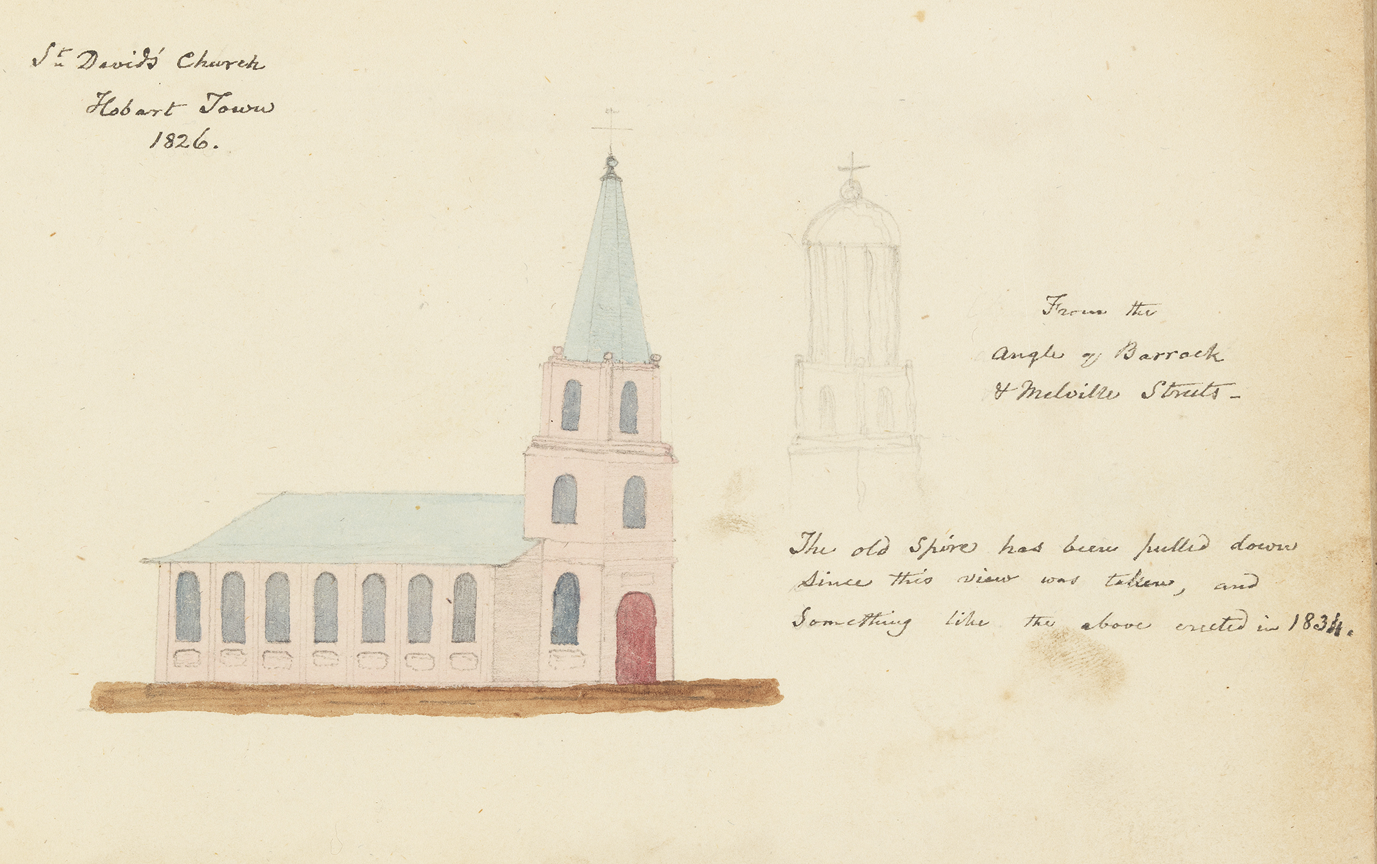 St David's Church, Hobart, Tasmania, 1826, from Sketches, Tasmania, 1822-1847, by Thomas Scott, State Library of New South Wales PXB 216